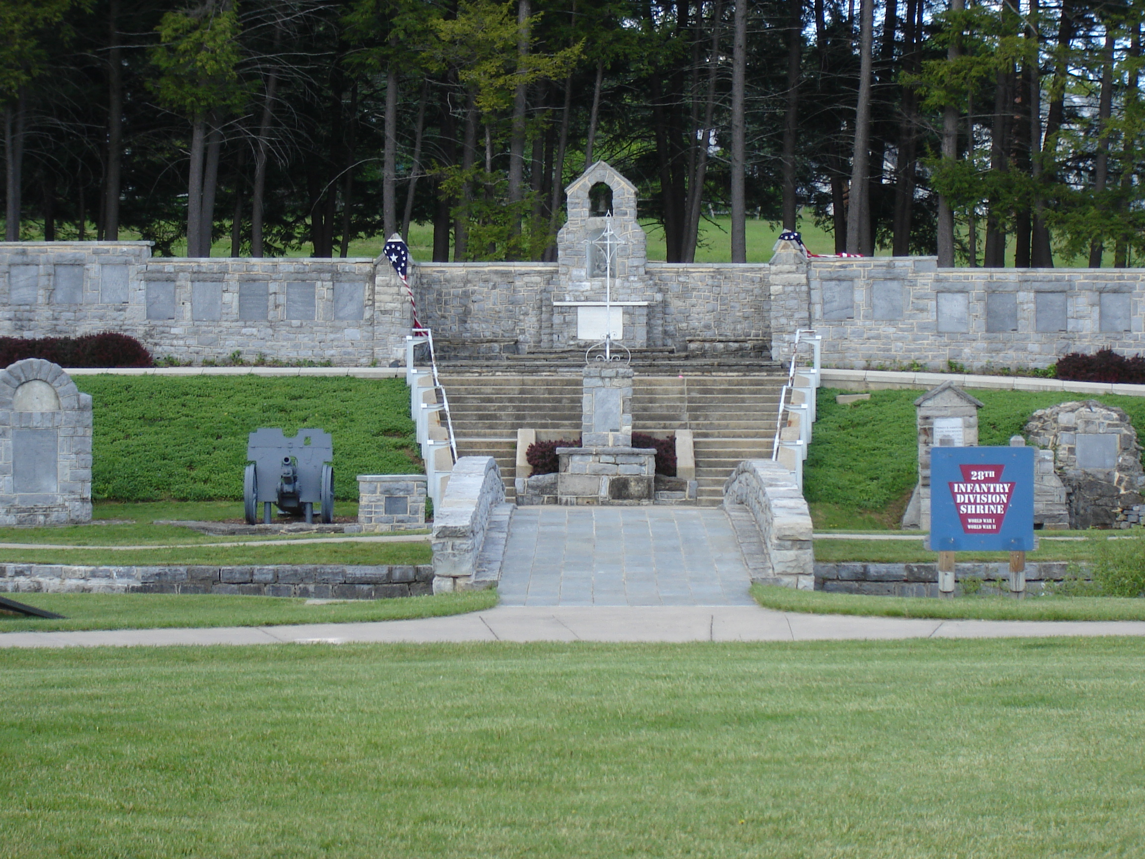 A view of the 28th Infantry Division World War I shrine on the grounds of the Pennsylvania Military Museum in Boalsburg, Pennsylvania.